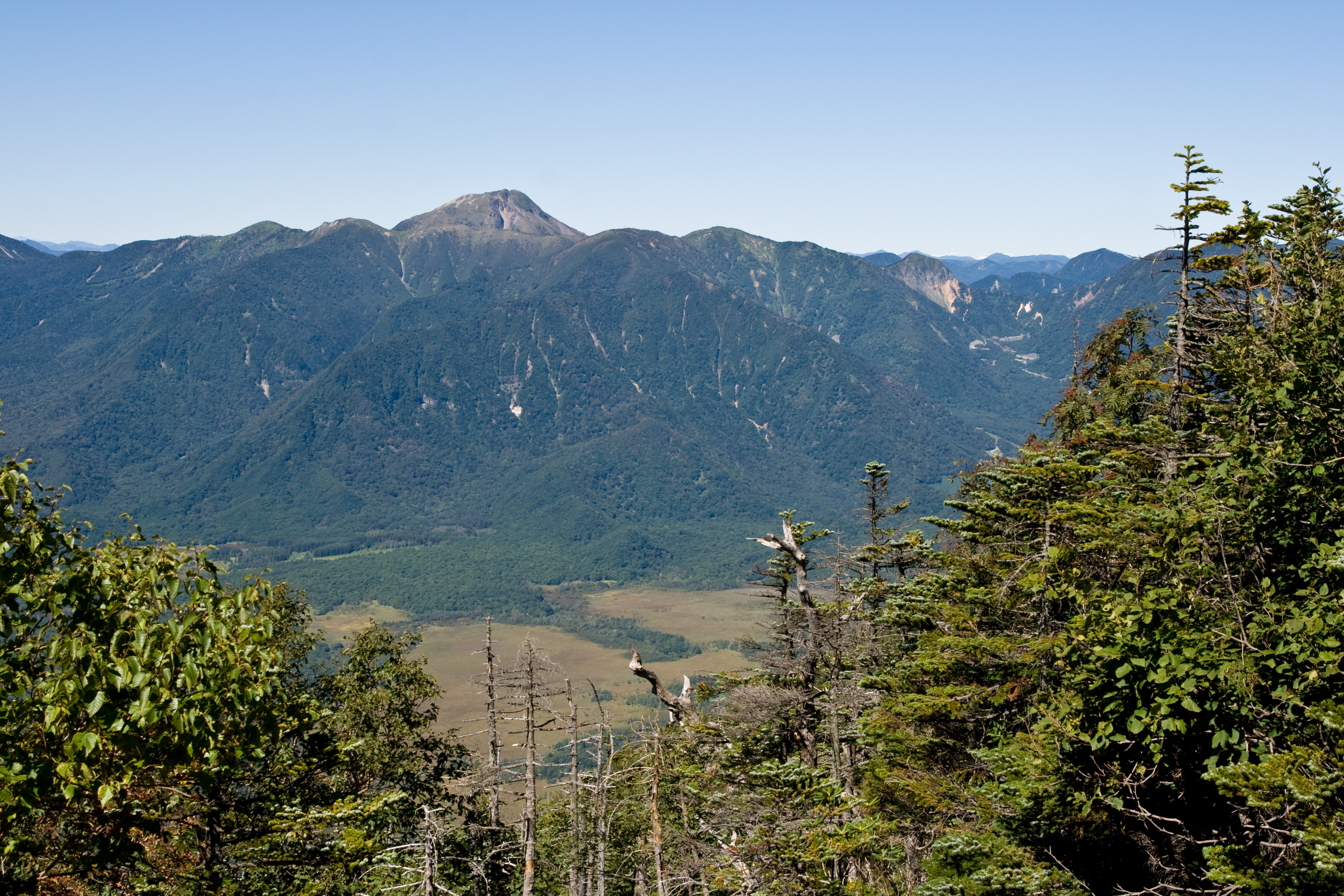 Mt.Nikko-Shirane, Tochigi and Gunma Prefectures, Japan.